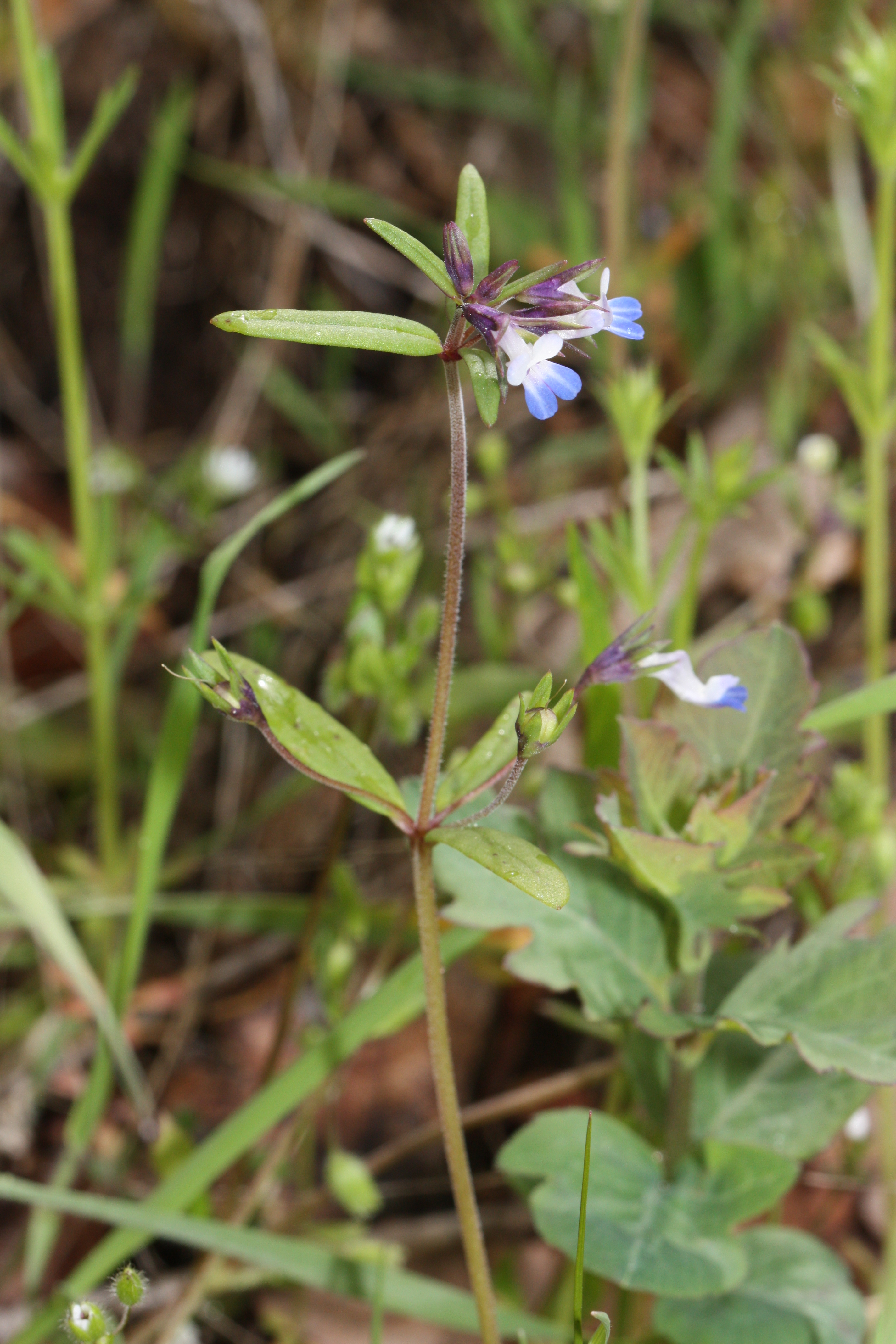 Small-flowered Blue-eyed Mary, Maiden Blue Eyed Mary Identification by: Hitchcock and Cronquist, p. 422 Viewpoint location: McCall Point Trail, Tom McCall Preserve Viewpoint elevation: 478 meter (1569 ft) Location source: Garmin GPSmap 60CSx Location Datum: WGS84